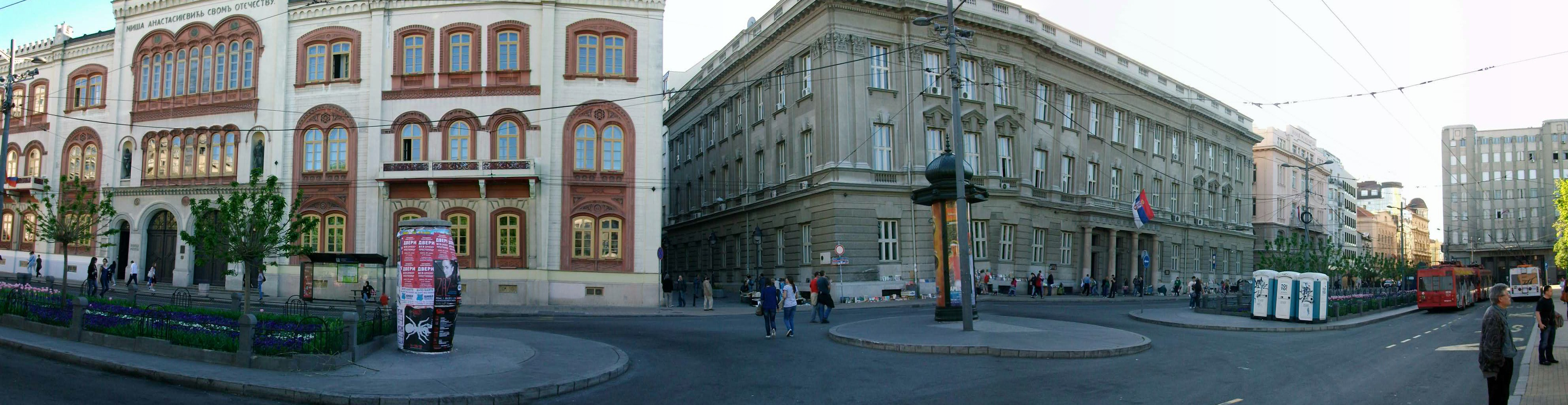 Studentski trg